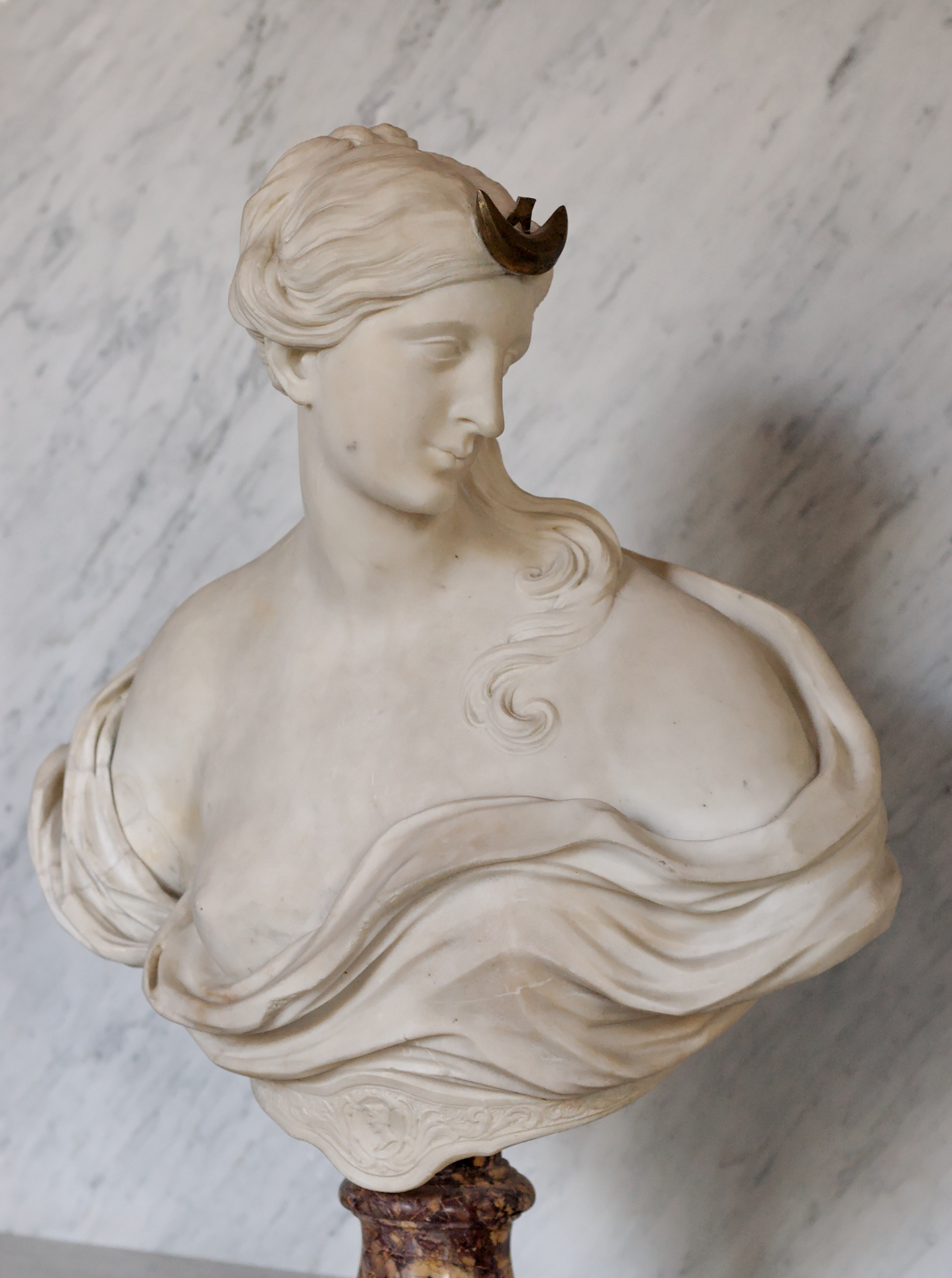 Diana. Marble, date unknown.